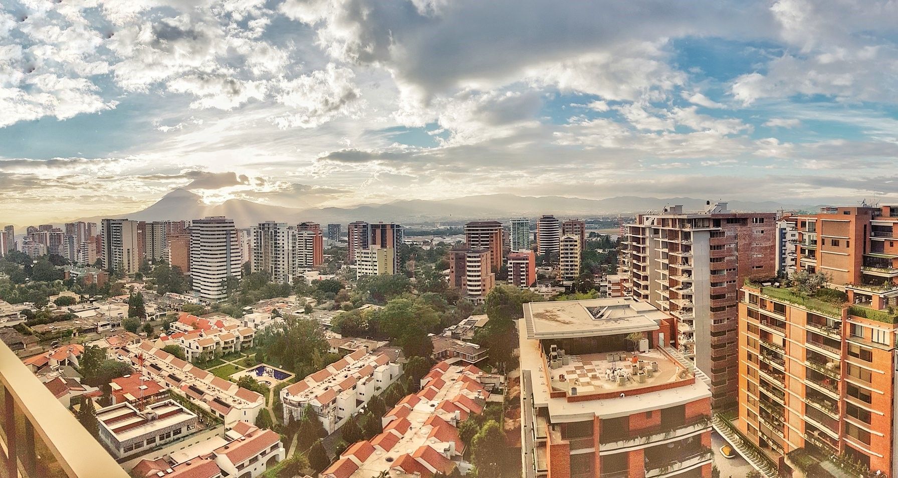 Buildings in Guatemala City